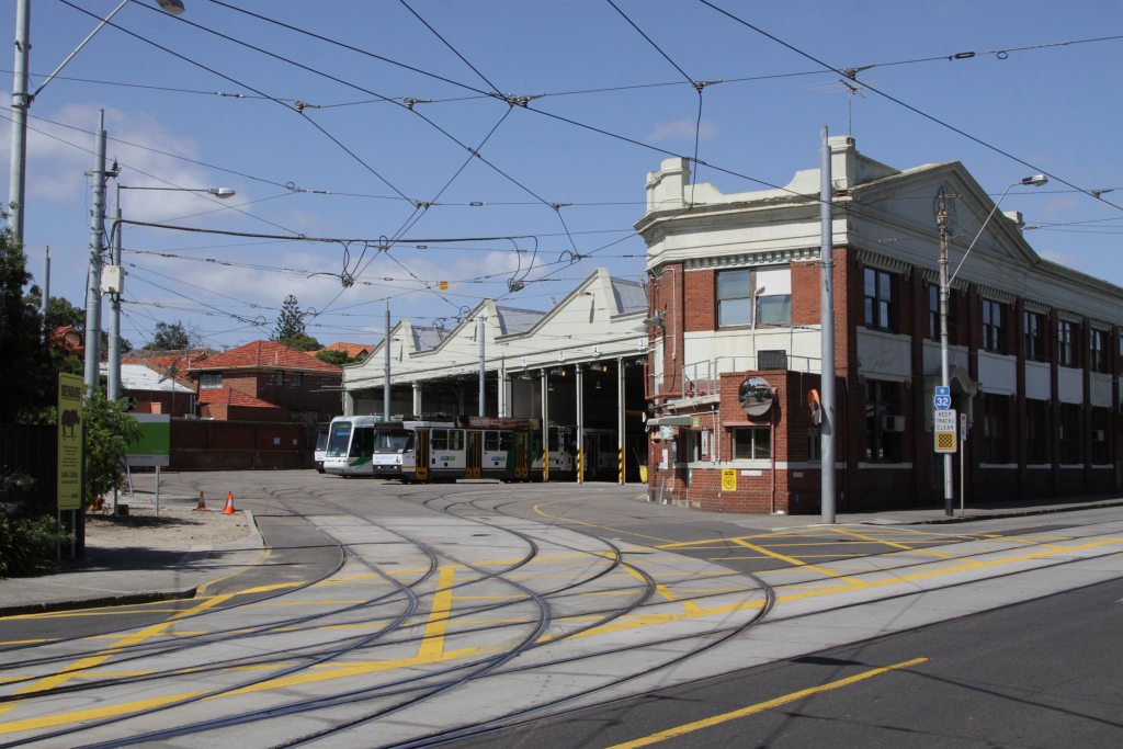 Barkers Road entrance Yarra Trams to Kew tram depot, Melbourne, Australia